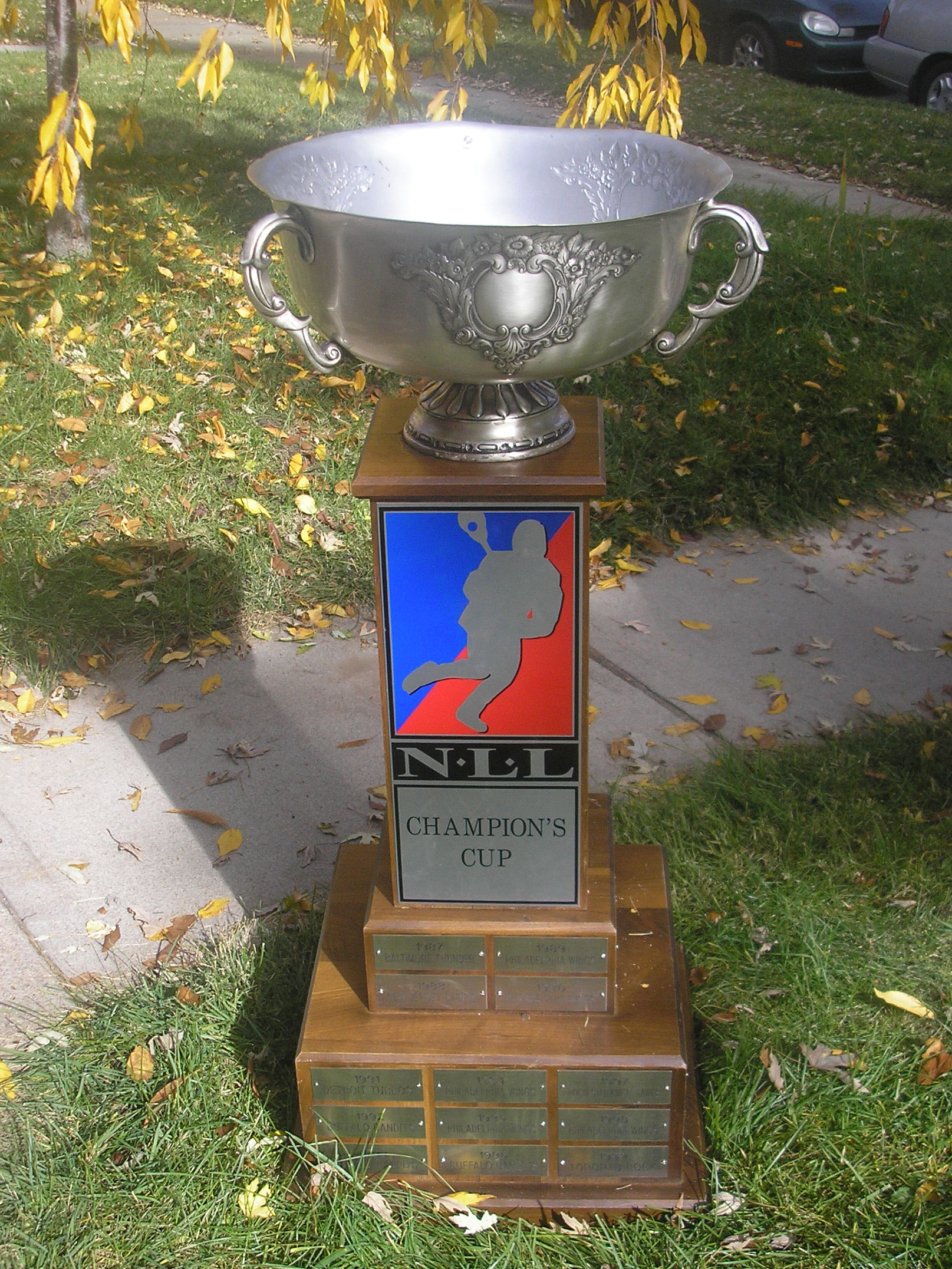 This is the NLL Champions Cup, photographed in 2006 after the winning season of the Colorado Mammoth. The Cup was photographed while in possession of Mammoth player John Gallant.